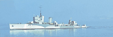 Picture of the Swedish destroyer HMS Psilander (18).